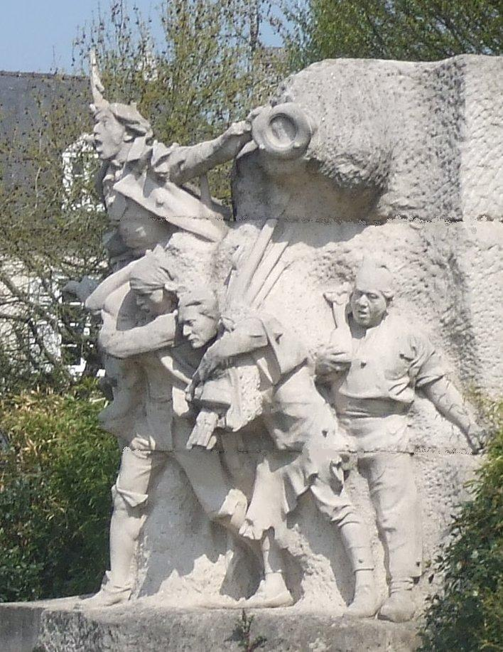 Statue of the Storming of the Bastille in Rennes